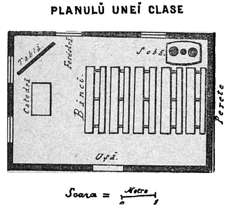 Plan of a classroom of the public school from Bordei Verde commune, Brăila County, România